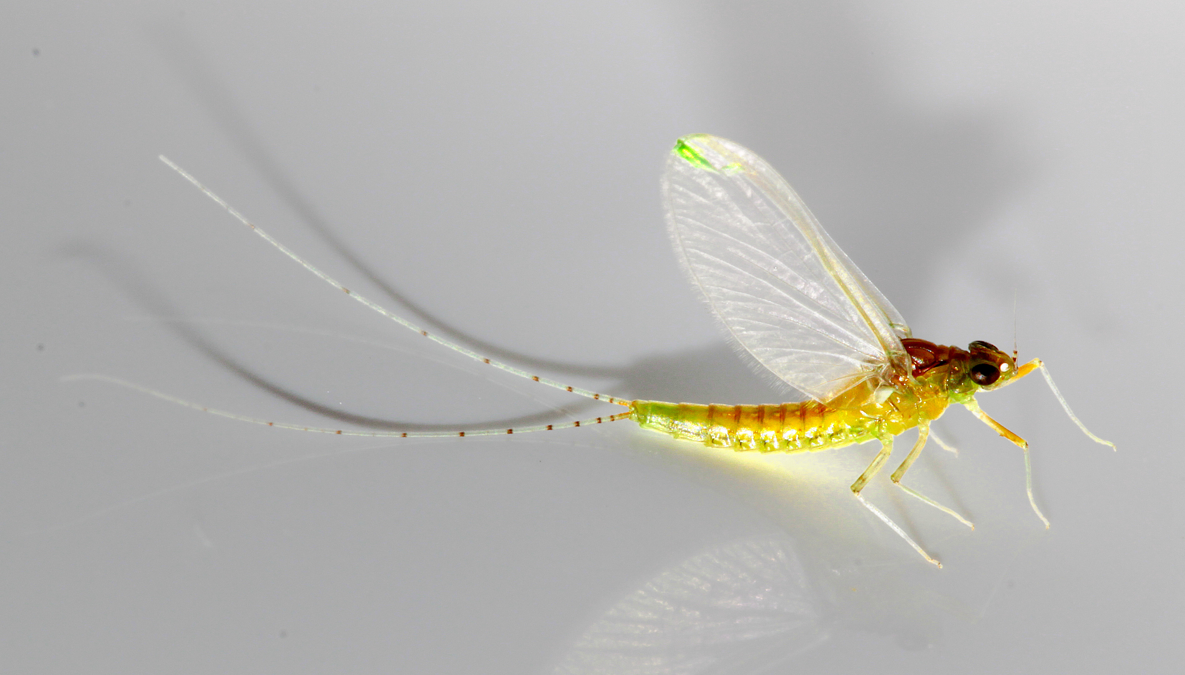 Order : Ephemeroptera (Mayfly). Image taken in India.